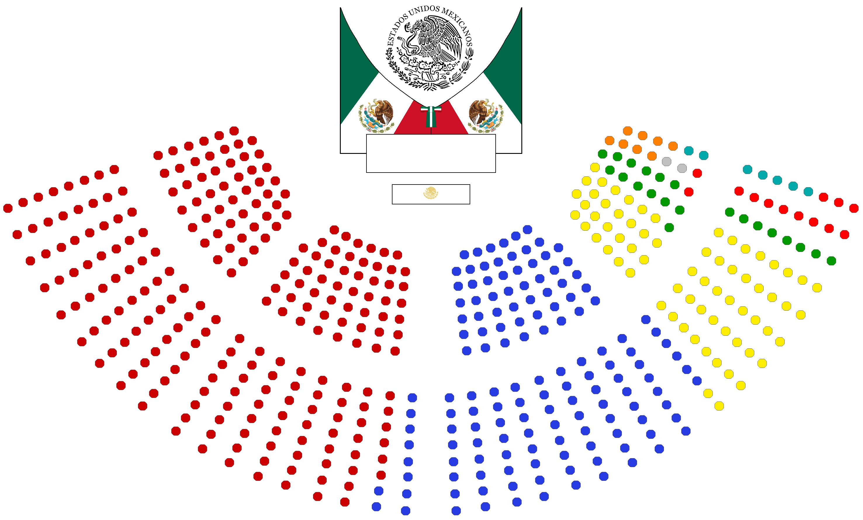 Breakdown of political party representation in the Chamber of Deputies during the LXI Legislature of Mexico